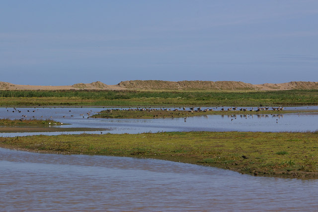 Simmond's Scrape, Cley Marshes Viewed from the hides in the middle of this Norfolk Wildlife Trust's reserve. In the background are the shingle banks at Cley Eye.